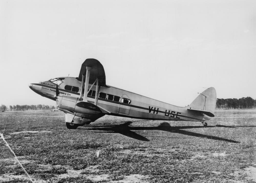 De Havilland 86A owned by Qantas Empire Airways, ca. 1940. This plane crashed at Brisbane on 20 February 1942. Pilot was Cec Swaffud.